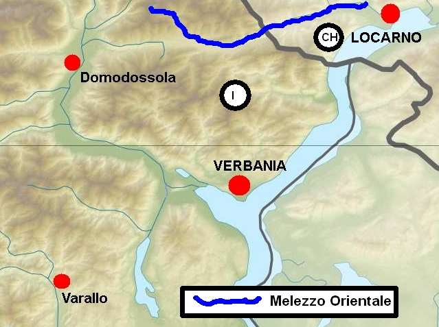 location within NE Piedmont (Italy)